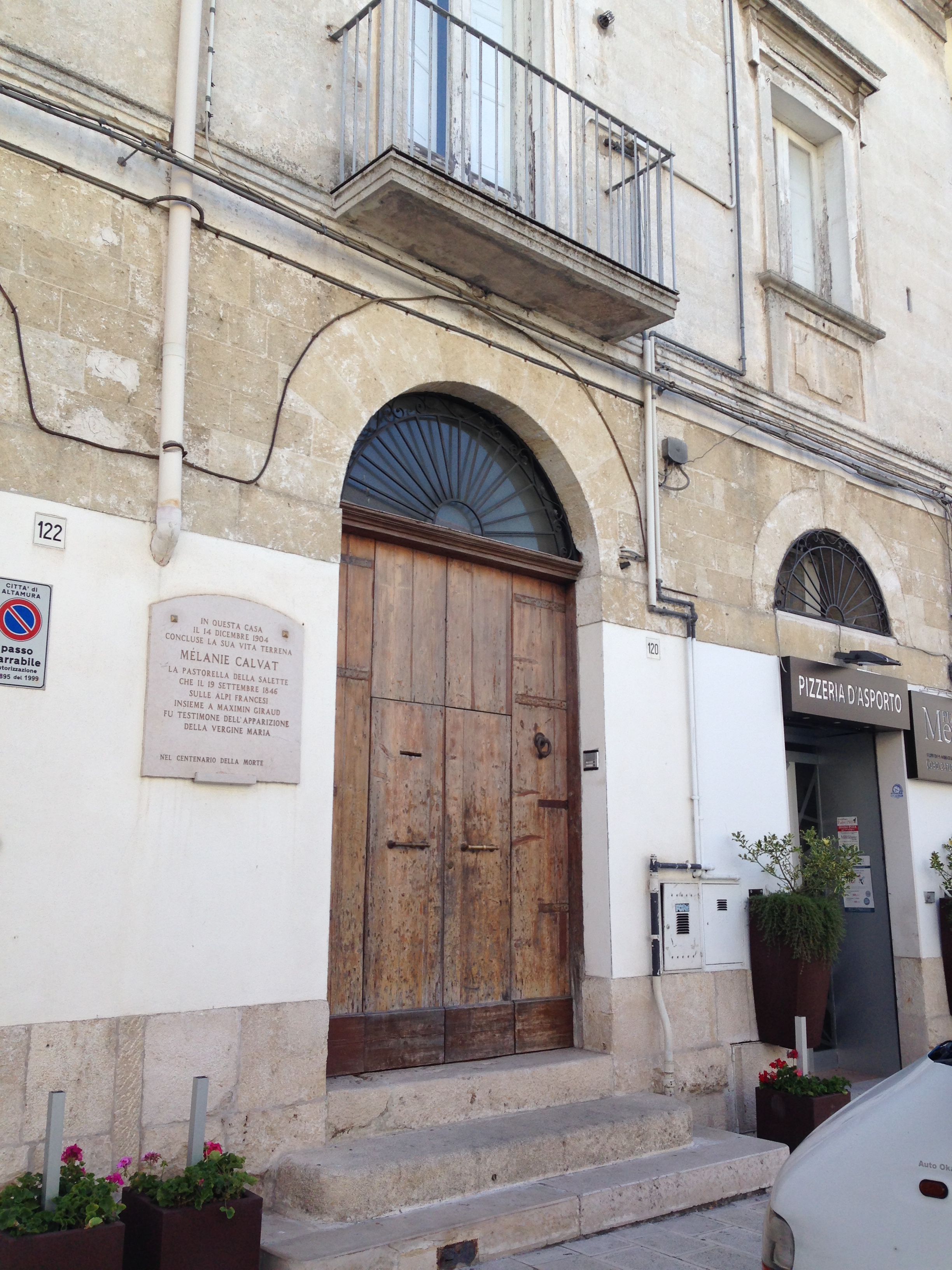 The house where Mélanie Calvat was found dead in 1904. The house is located in Altamura in corso Vittorio Emanuele II n° 120.